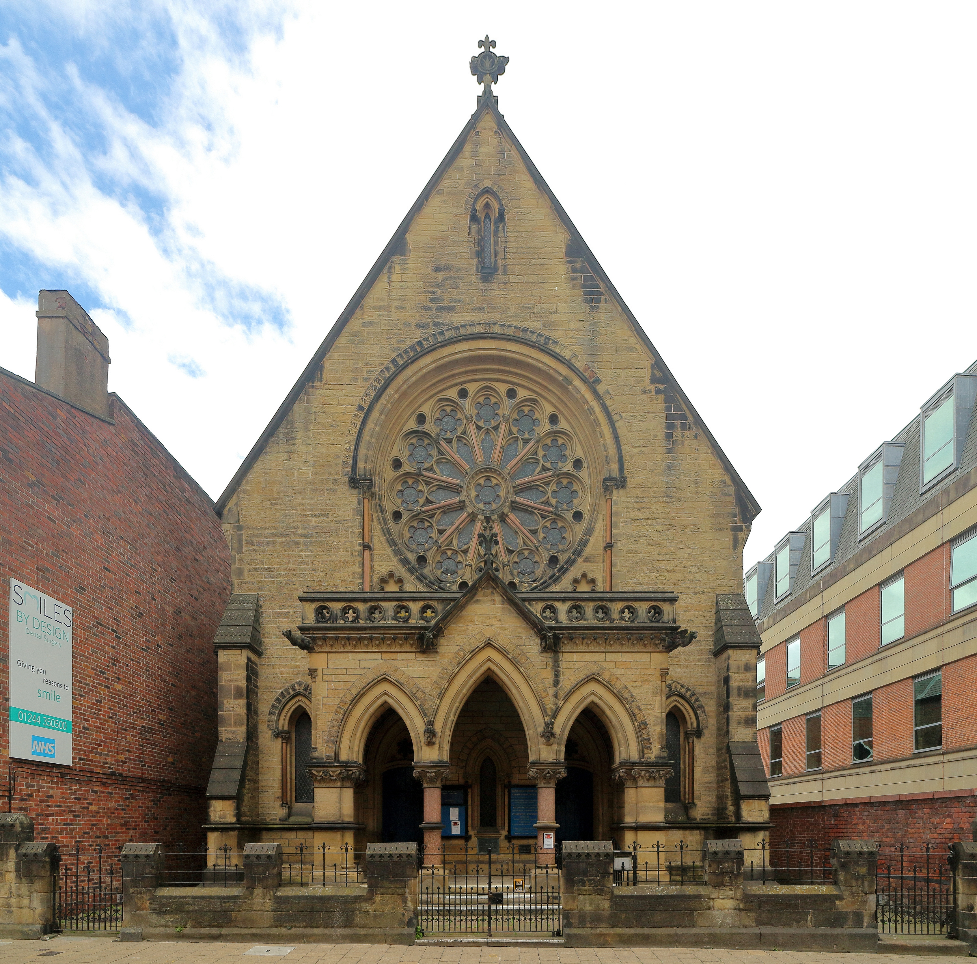 Grade II listed church, 1866, by W. & G. Audsley with a sandstone frontage and the sides and back in brick. The wall and railings to the front are included in the listing.